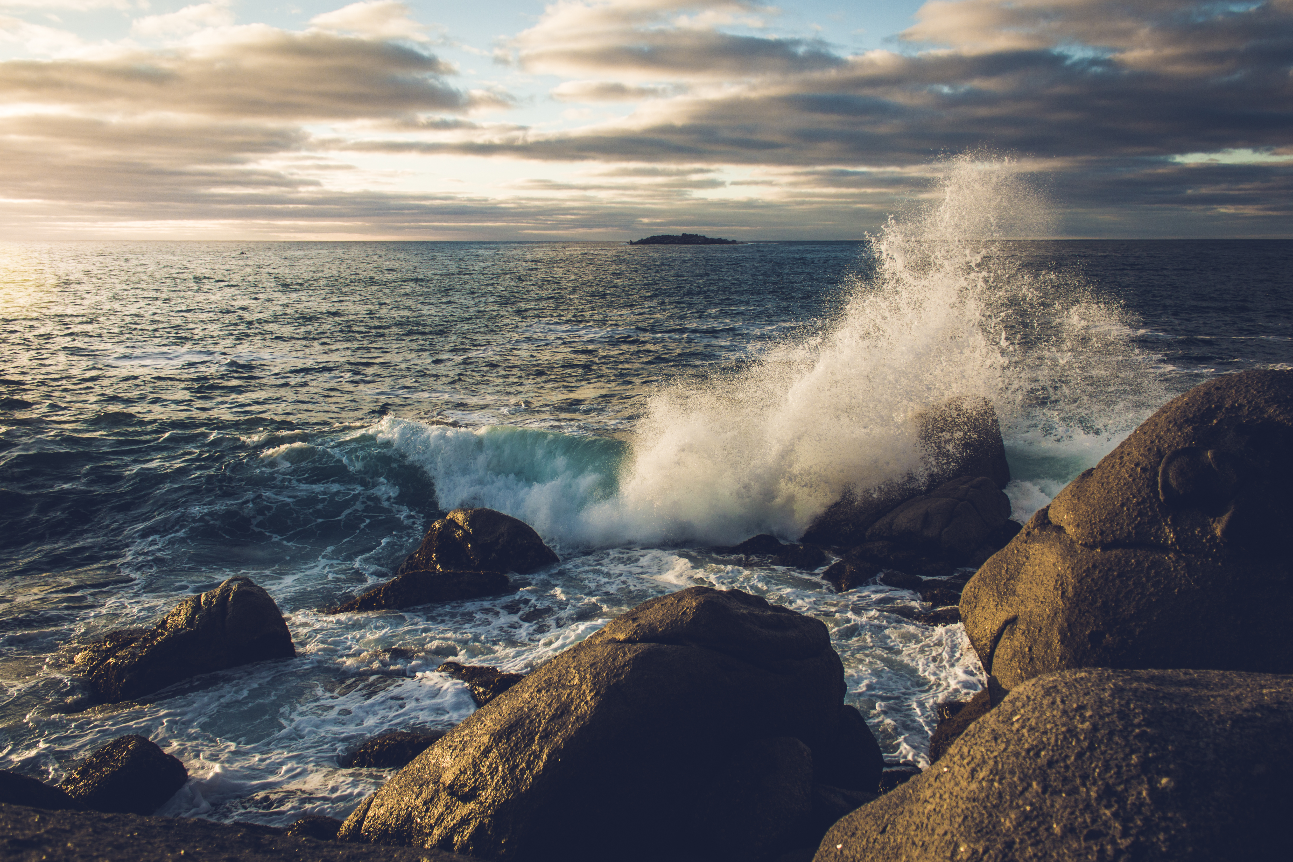 Victor Harbor, Australia